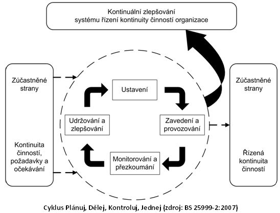 Plan-Do-Check-Act Cycle (PDCA)